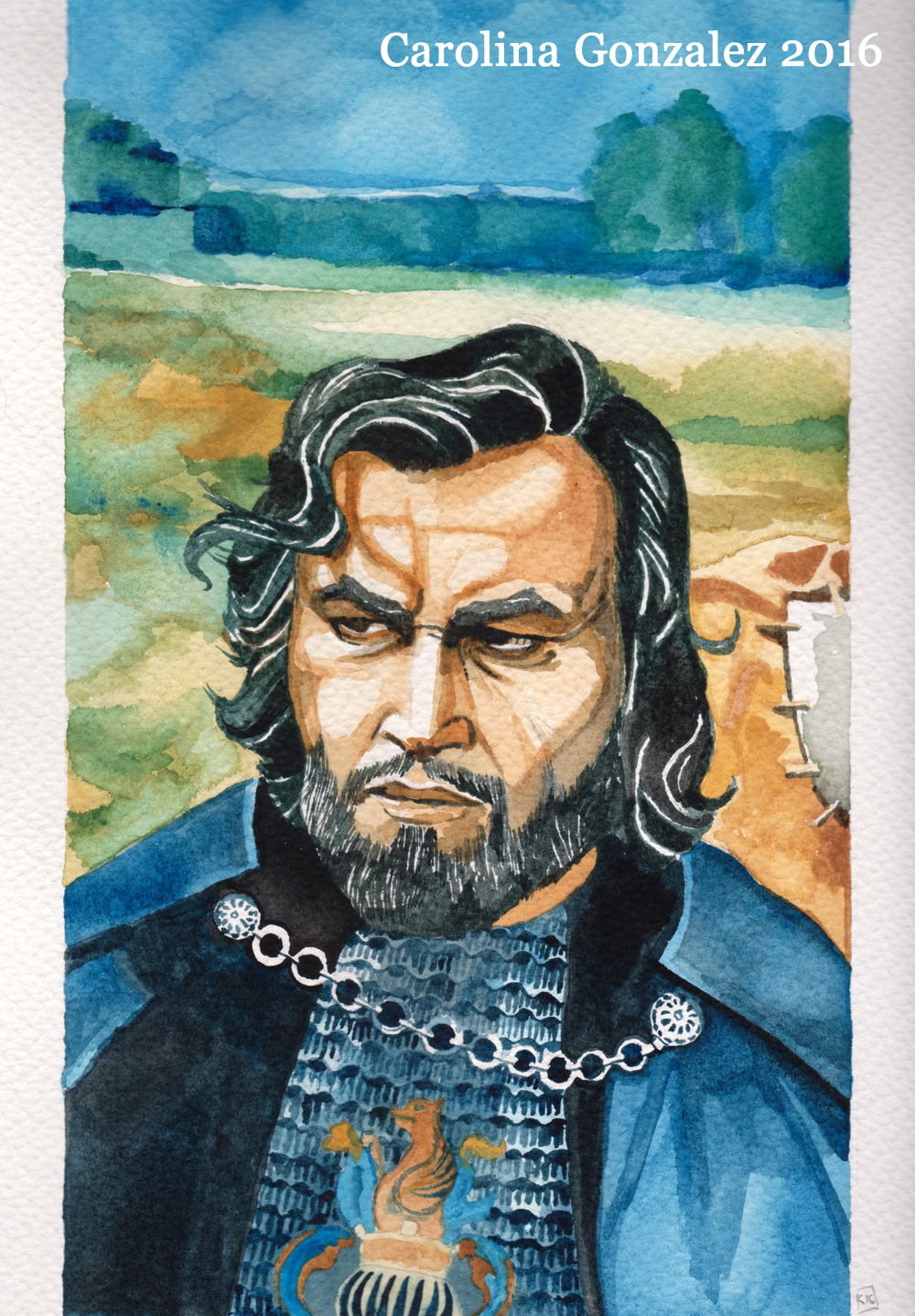 Paul Naschy as Alaric de Marnac, portrait painted by Carolina Gonzalez (around 8×11 inches, watercolour on 300lb. paper).